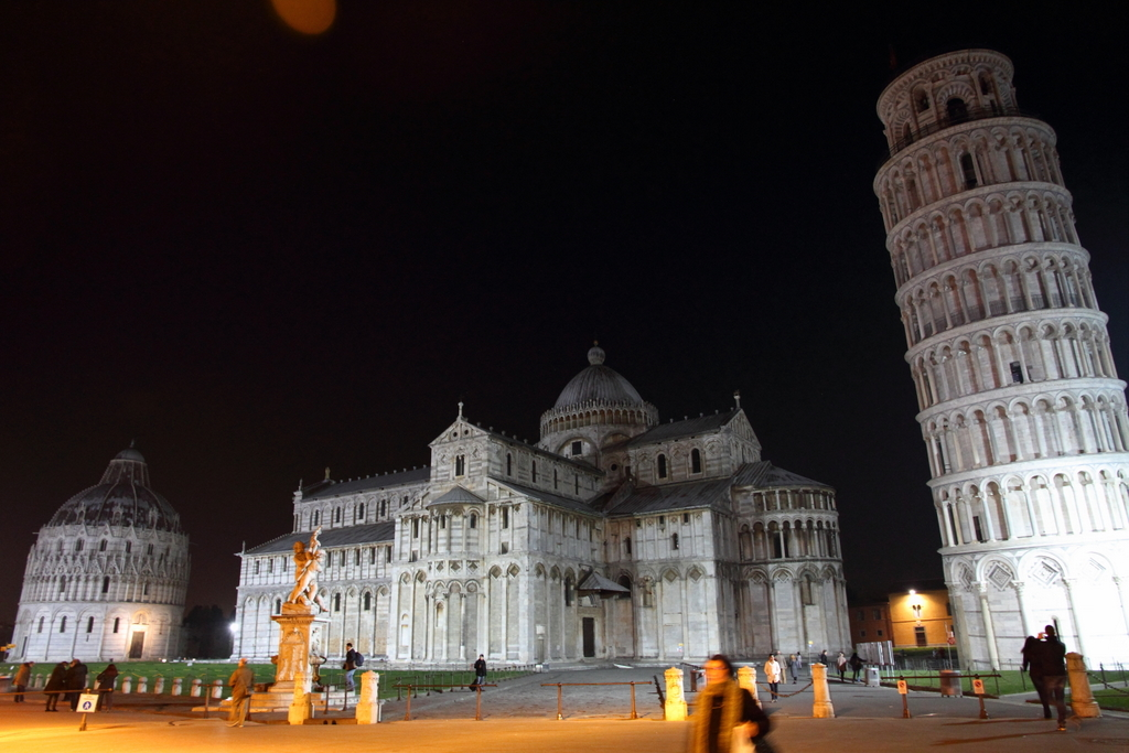 Pisa Tower with cathedral and baptistry at night